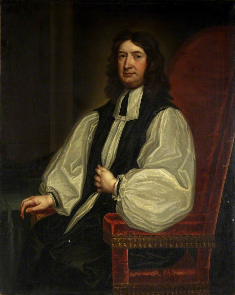 Hugh Boulter (1672-1742), Bishop of Bristol (later Archbishop of Armagh